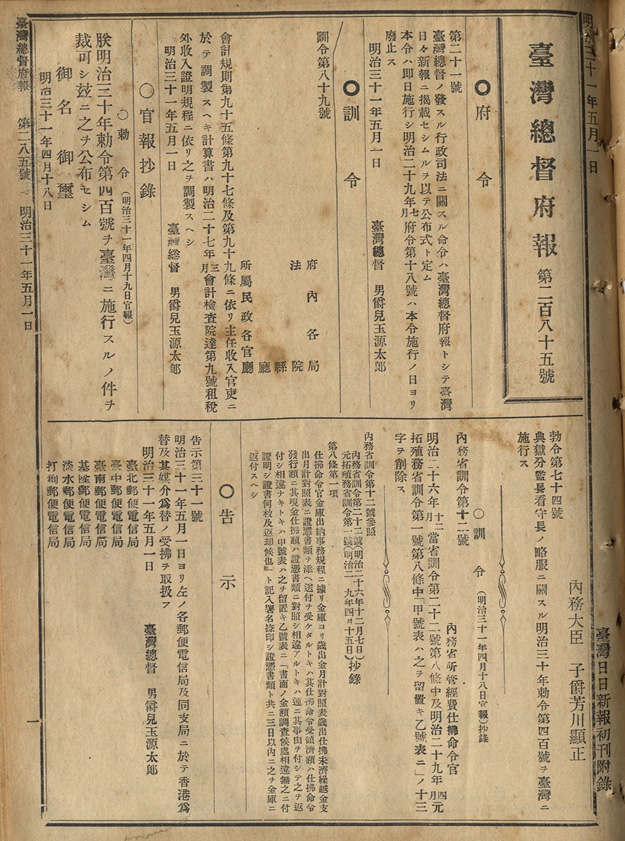 This is the first page of the 285th issue of the Gazette of Government-General of Taiwan, published on 1 May 1898. The Government-General of Taiwan was a part of Japanese government that ruled Taiwan between 1895 and 1945.